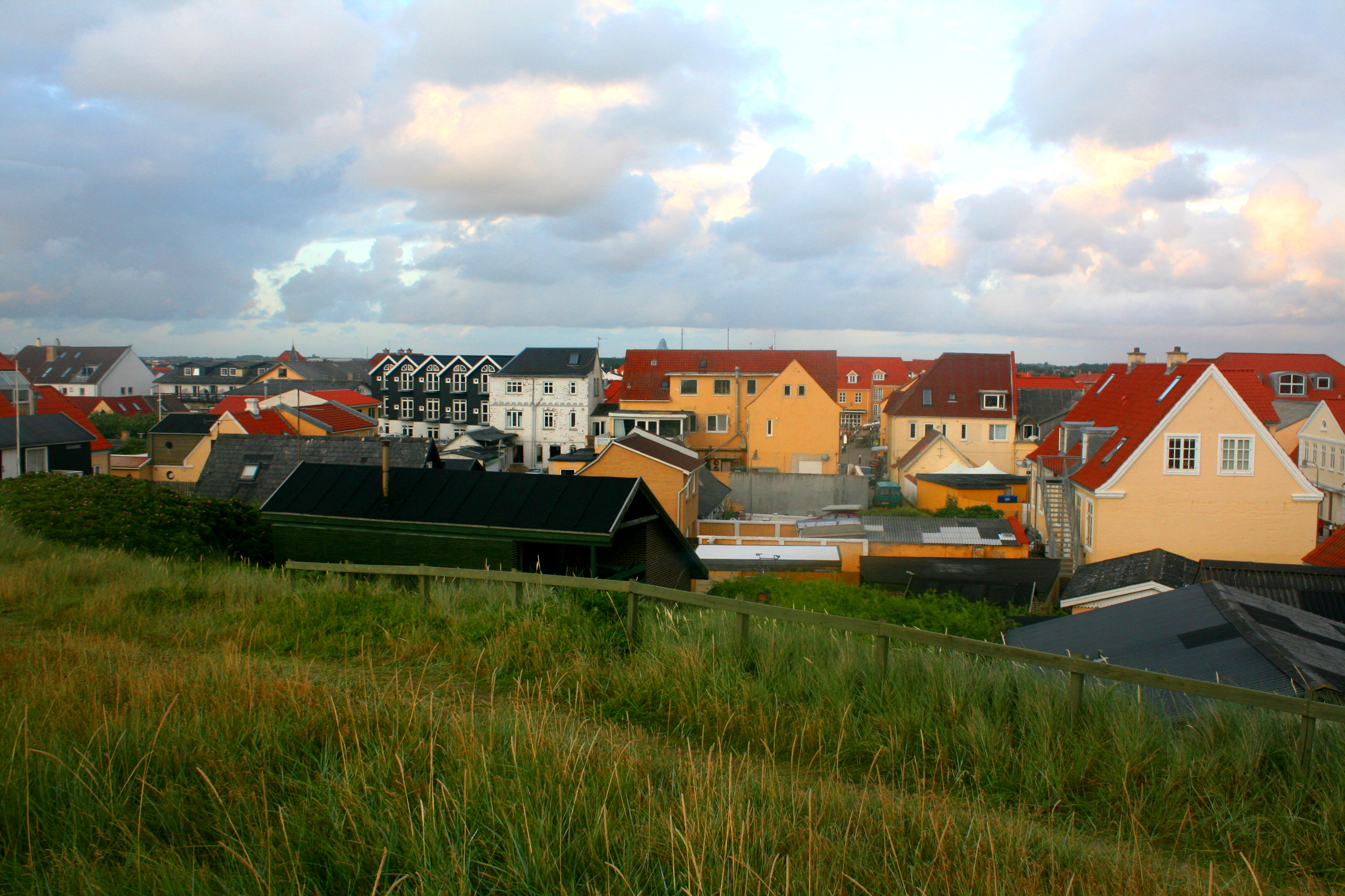 View from the dunes over Løkken (Northern Jutland, Denmark)